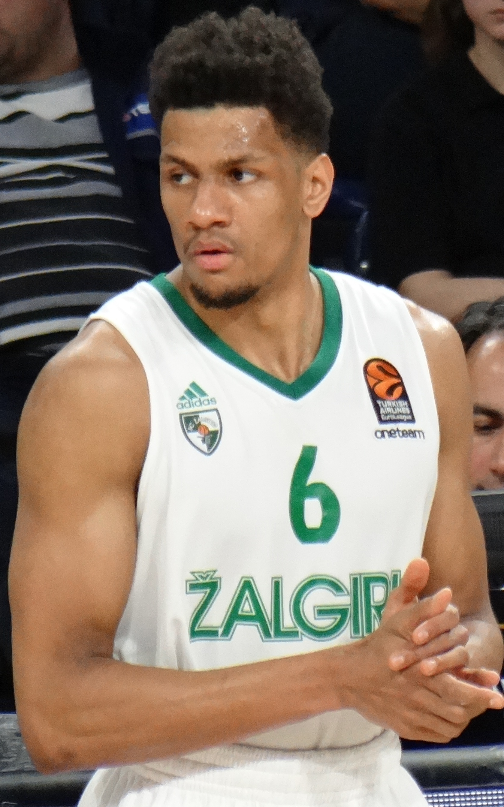 Axel Toupane 6 BC Žalgiris EuroLeague 20180223